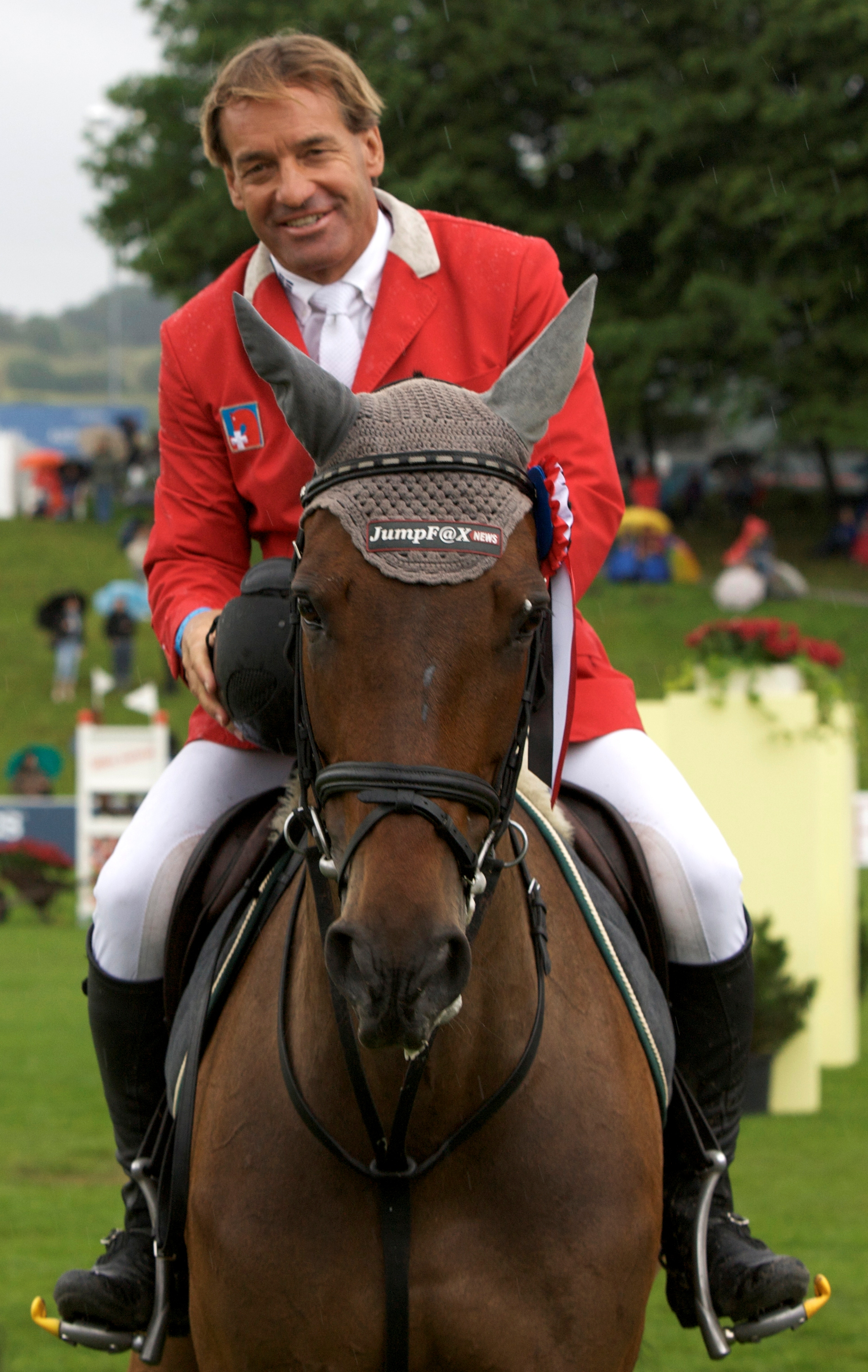 Markus Fuchs with La Toya III (Belgian Warmblood), CSIO Schweiz, St. Gallen, 2009